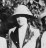 (L - R) Helen Crawfurd, Janet Barrowman, Margaret McPhun, Mrs A.A. Wilson, Frances McPhun, Nancy A. John and Annie Swan. Guess at 1912